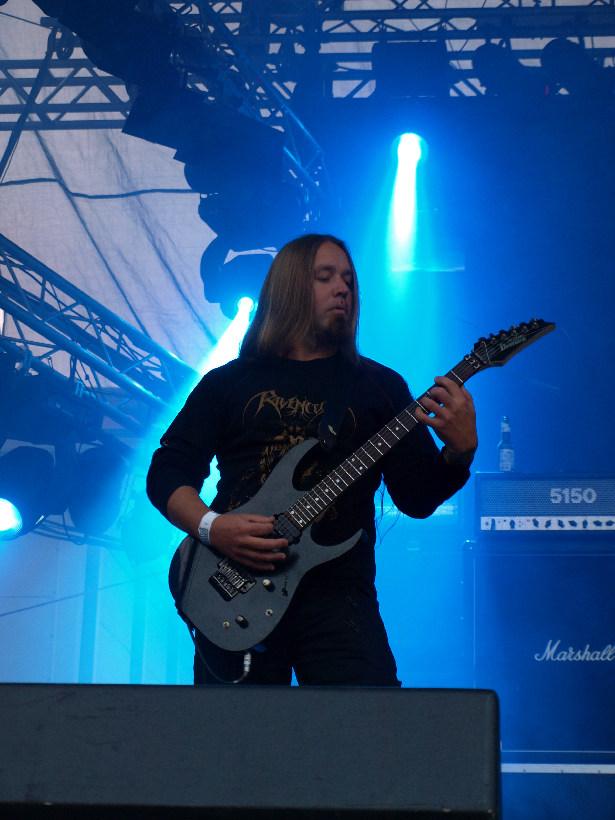 Norwegian black metal band Mayhem live at Jalometalli 2008 in Oulu.